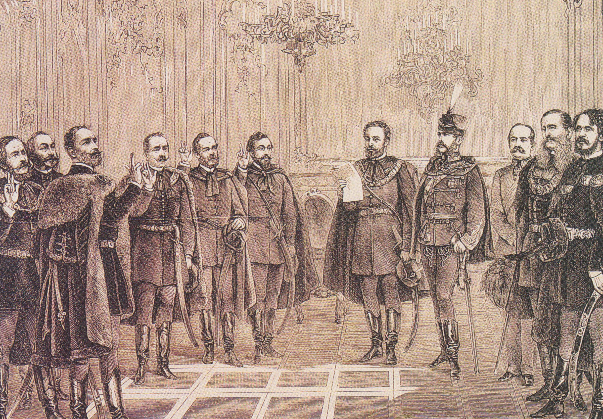 Inauguration of the Andrássy Cabinet in 1867